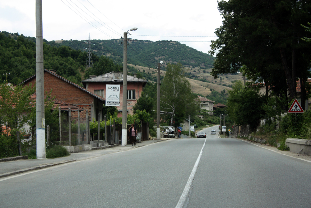 Predela Road throug Gradevo Village